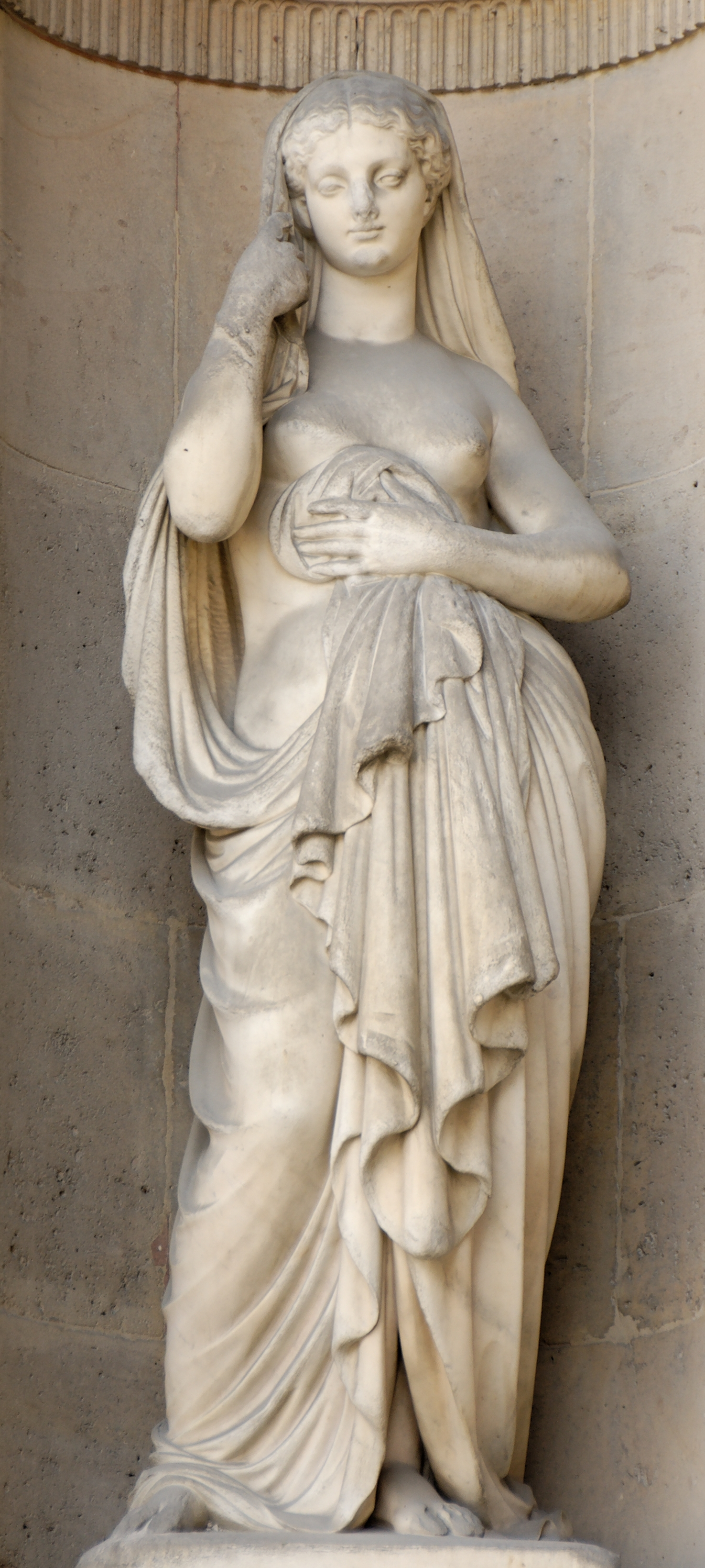 Modesty (1861), by Louis-Léopold Chambard (1811-1895). East façade of the Cour Carrée in the Louvre palace, Paris.